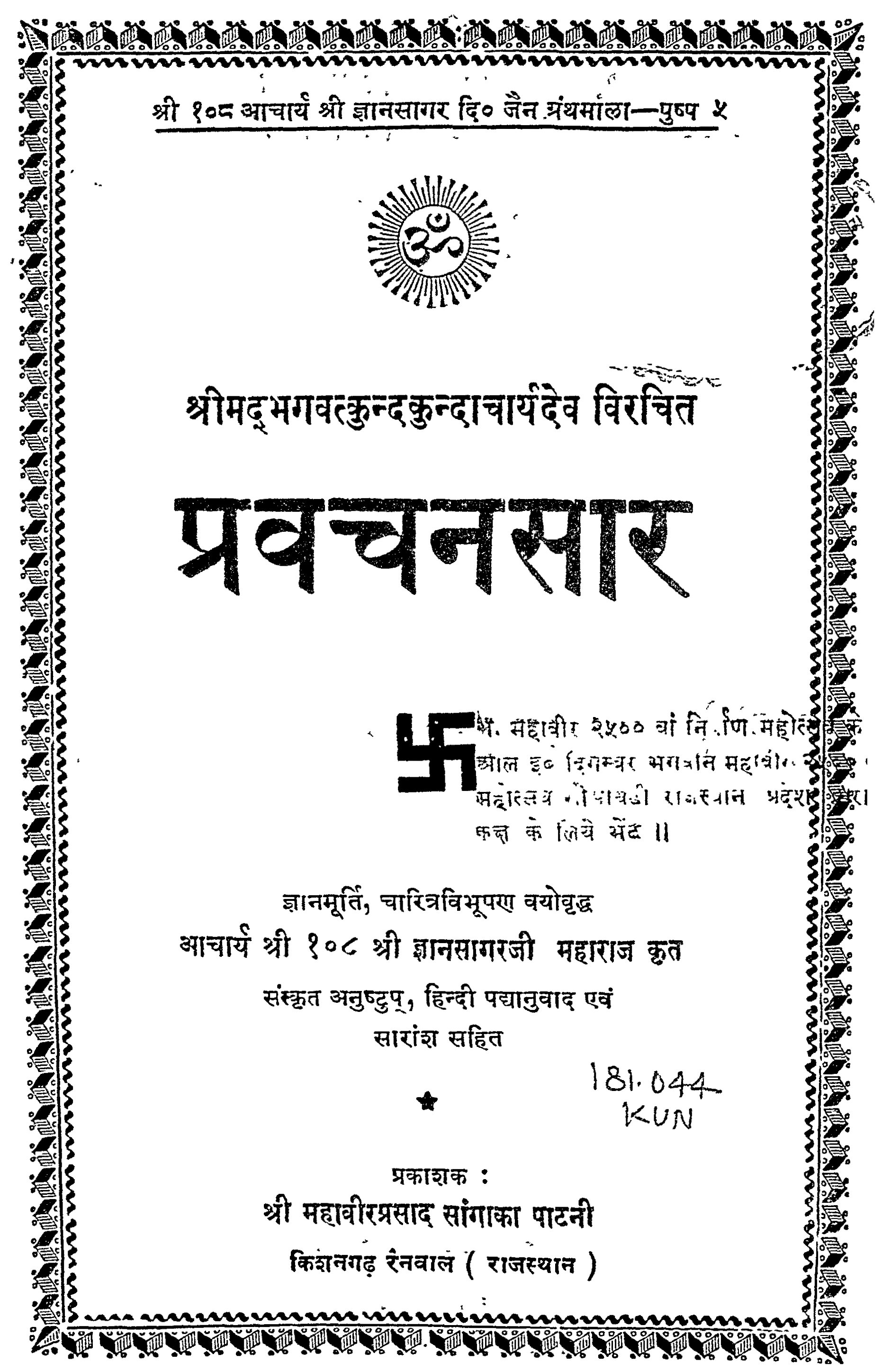 Pravachanasara Jain text - Hindi Translation